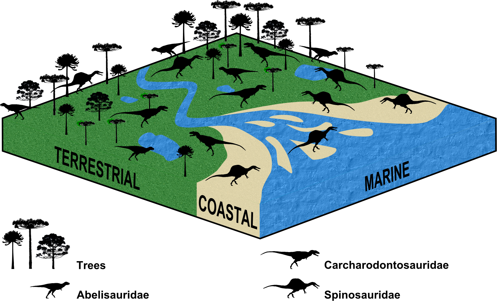 Schematic illustration of the spatial distribution of Abelisauridae, Carcharodontosauridae, and Spinosauridae throughout coastal and terrestrial paleoenvironments. Spinosaurids seem to have been natural inhabitants of coastal settings, while terrestrial and more inland habitats were shared by them and both abelisaurids and carcharodontosaurids. Note that the number of body icons (not to scale) does not reflect perfectly the relative abundance of these taxa within each paleoenvironment.